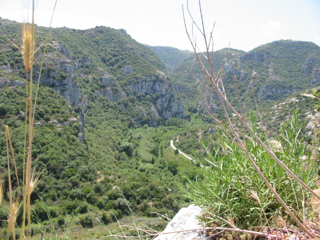 The Anapo valley, where the necropolis of Pantalica is situated.